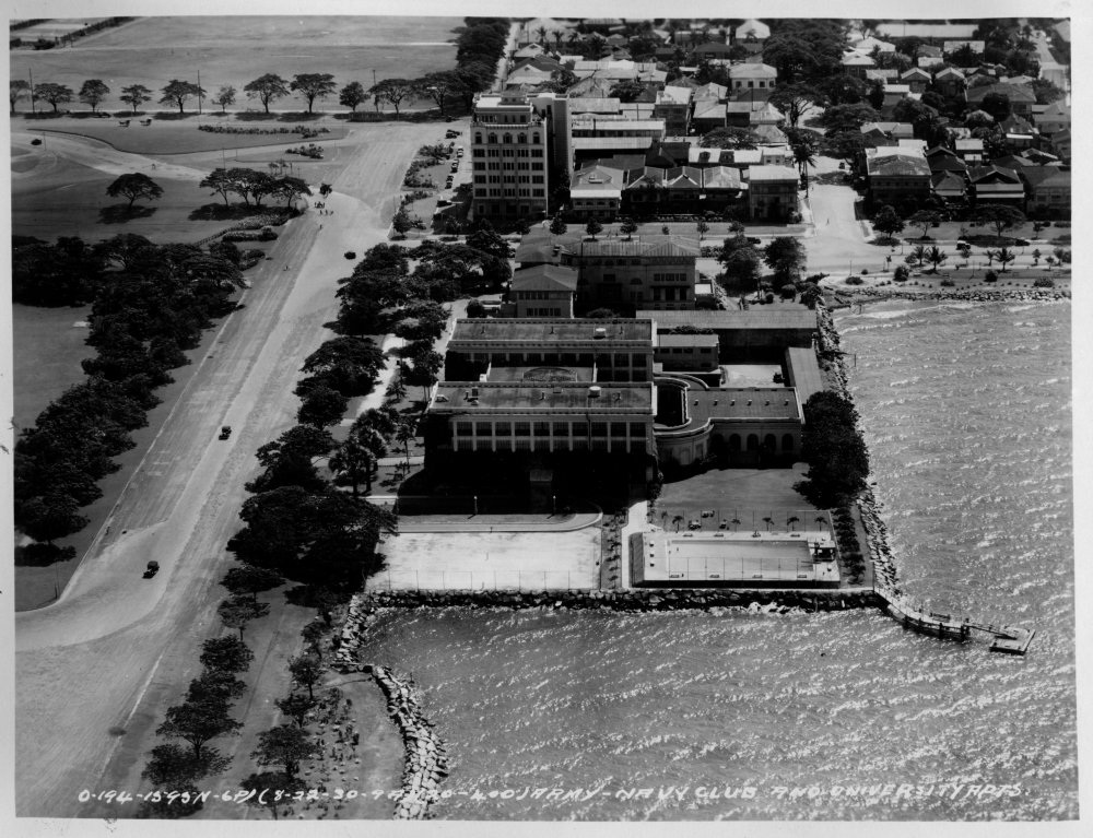 PictionID:38278917 - Catalog:AL-135A 089 Army-Navy Club and University Apartments Manila 22Aug30 - Filename:AL-135A 089 Army-Navy Club and University Apartments Manila 22Aug30.tif - This image is from a photo album donated to the Museum by JL Highfill, who was a photographer for the Navy before and during the Second World War-----------PLEASE TAG this image with any information you know about it, so that we can permanently store this data with the original image file in our Digital Asset Management System.-----------------SOURCE INSTITUTION: San Diego Air and Space Museum Archive